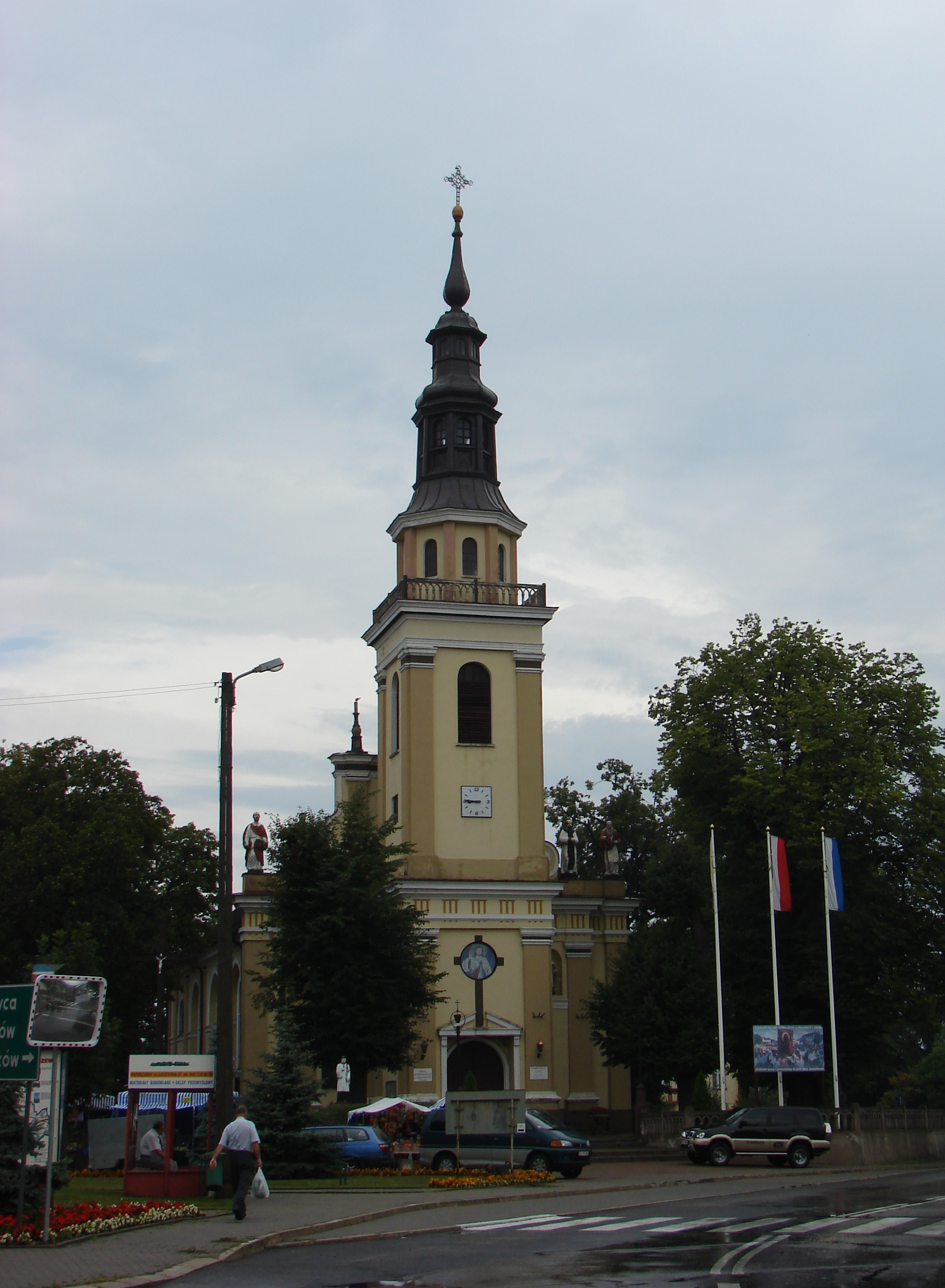 Parzęczew, Zgierz County. Parish church of Virgin Mary, built 1804-1810.